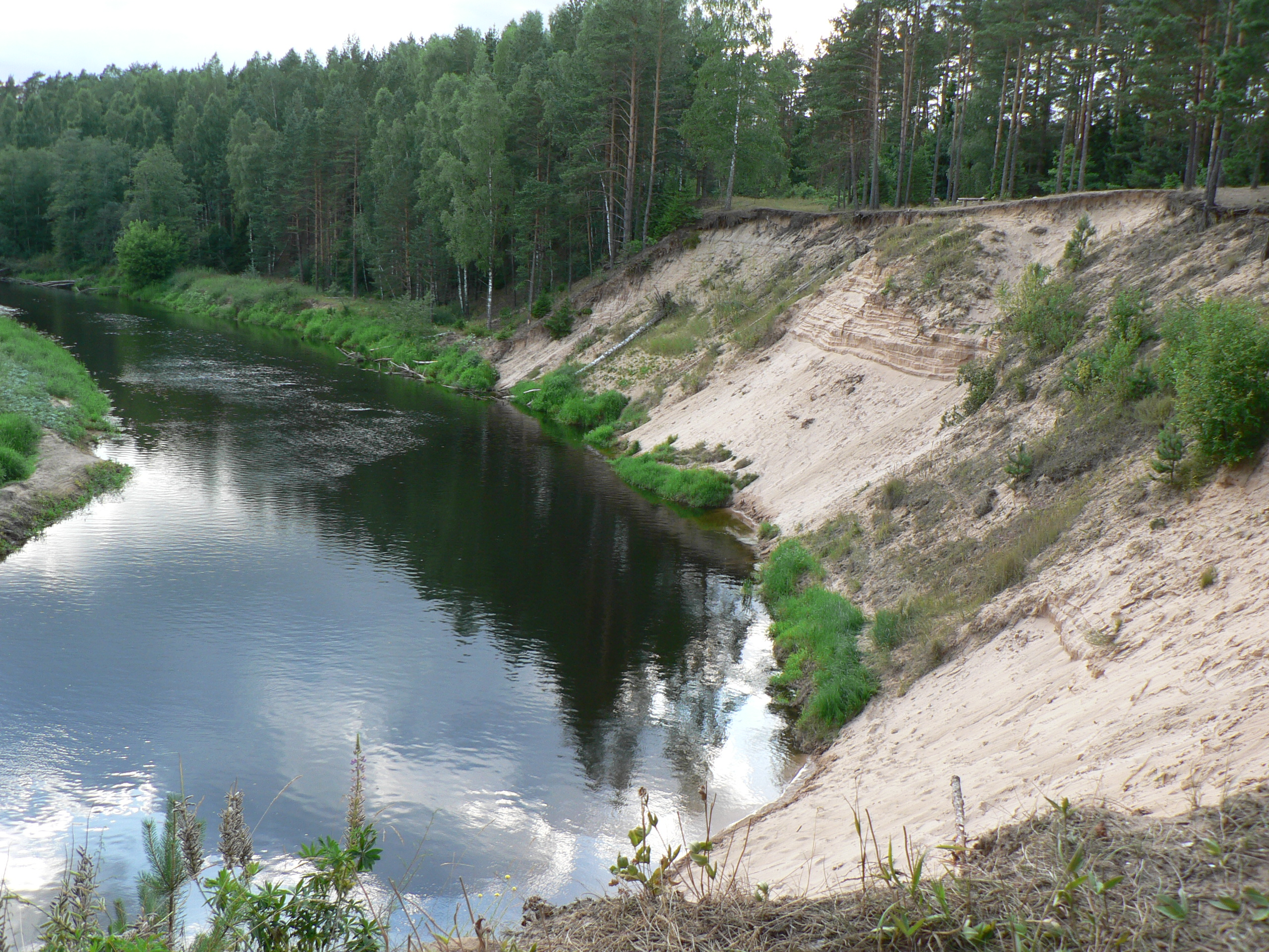 Šventoji River near Mikieriai